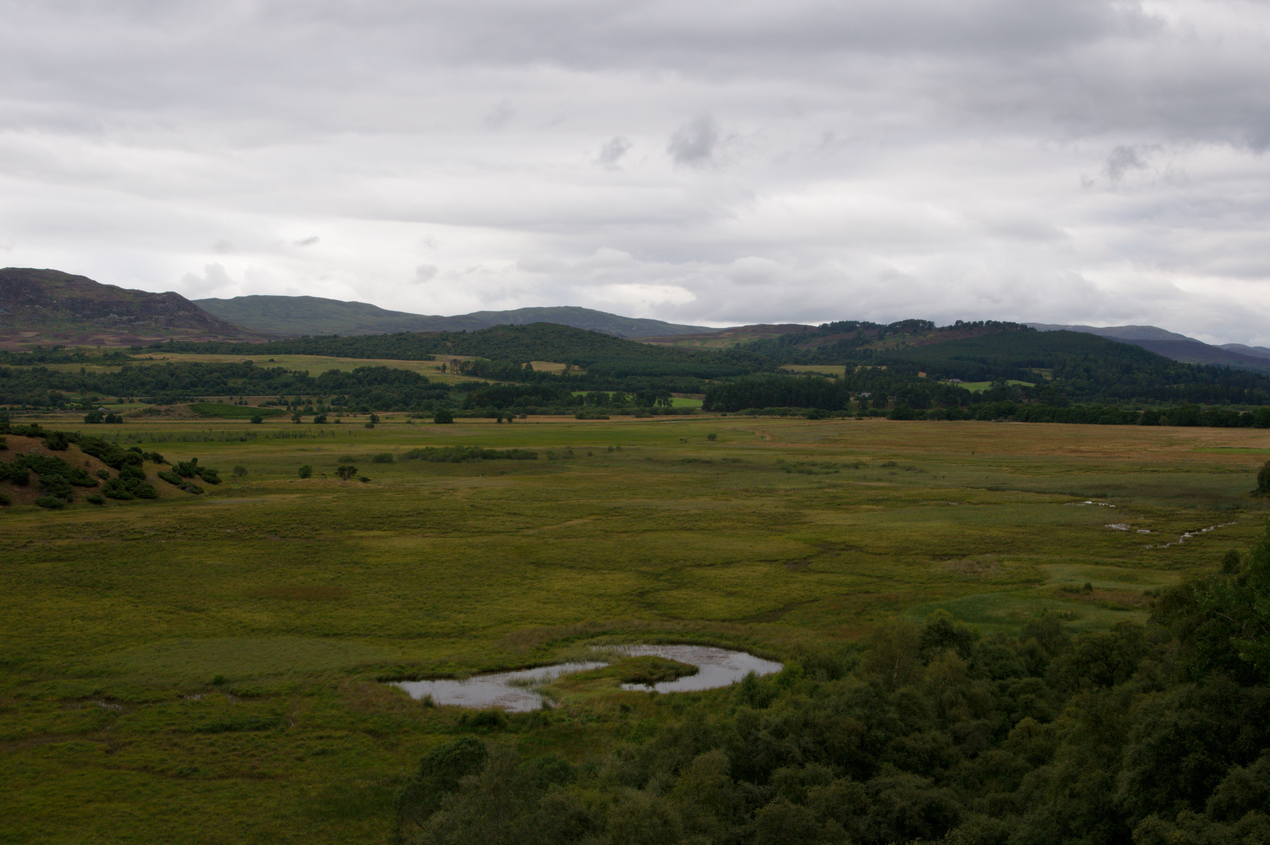 The Insh Marshes of River Spey near Kingussie